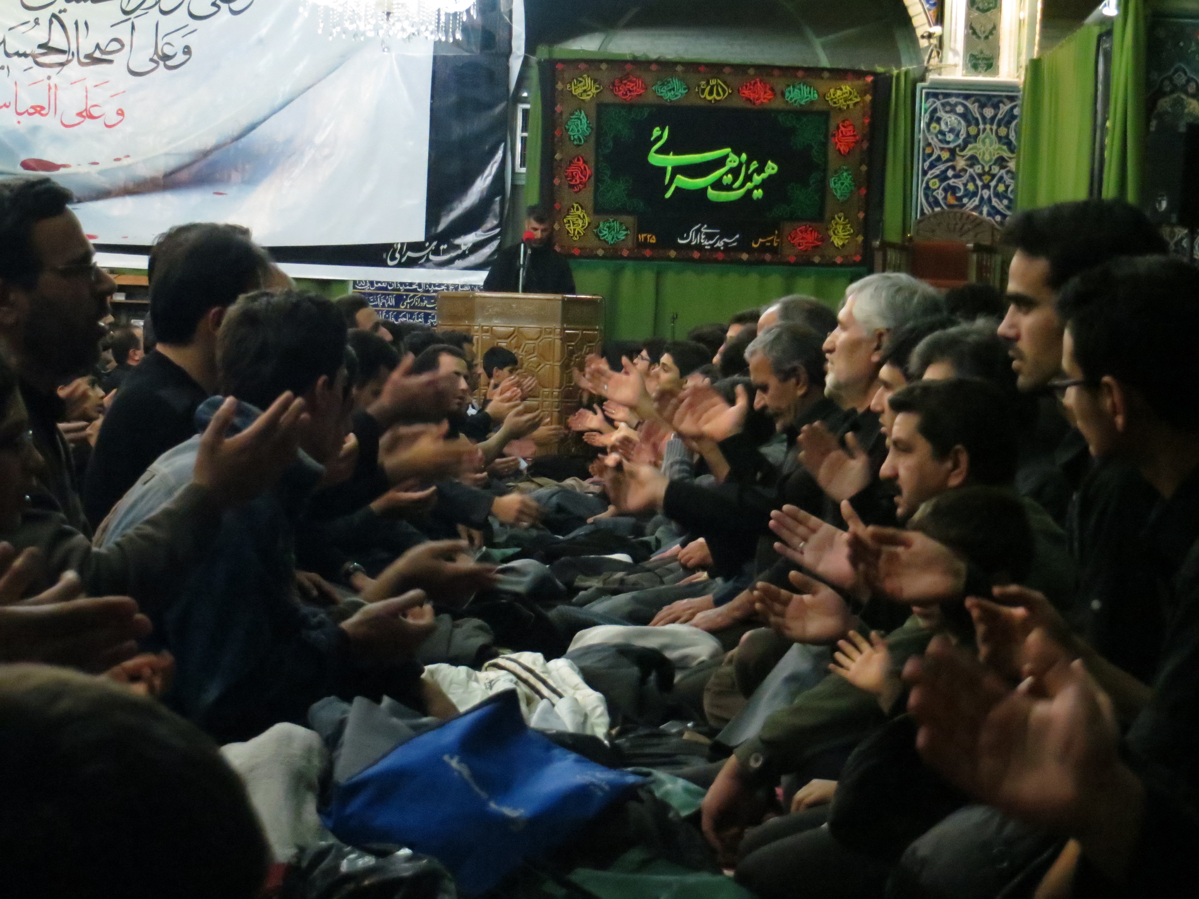 Mourning of Muharram is held in majority of cities and villages in Iran by Shia Muslims annually. Although all sort of ceremonies are performed for Imam Hossein and his followers martyrdom remembrance, they have different styles and rules referring to various cultures.